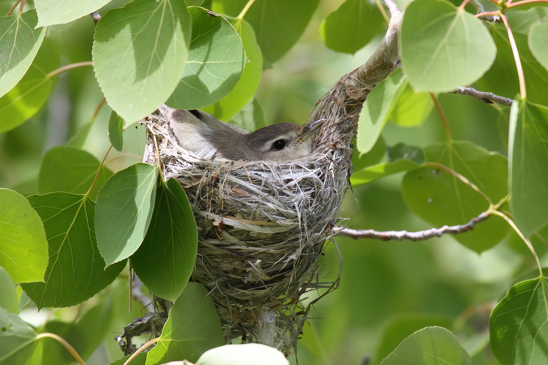 Warbling Vireo (Vireo gilvus) on nest, Ruby Mountains, Nevada